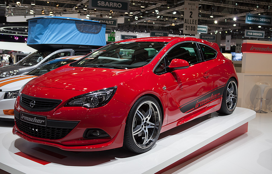 Motorshow Geneva 2012